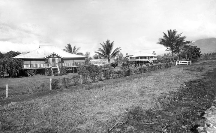 Meringa Sugar Experiment Station, North Queensland. (The Australian Bureau of Sugar Experimental Stations imported approximately 100 toads from Hawaii to the Meringa Experimental Station near Cairns and more than 3000 were released in the sugar cane plantations of North Queensland in July 1935.)